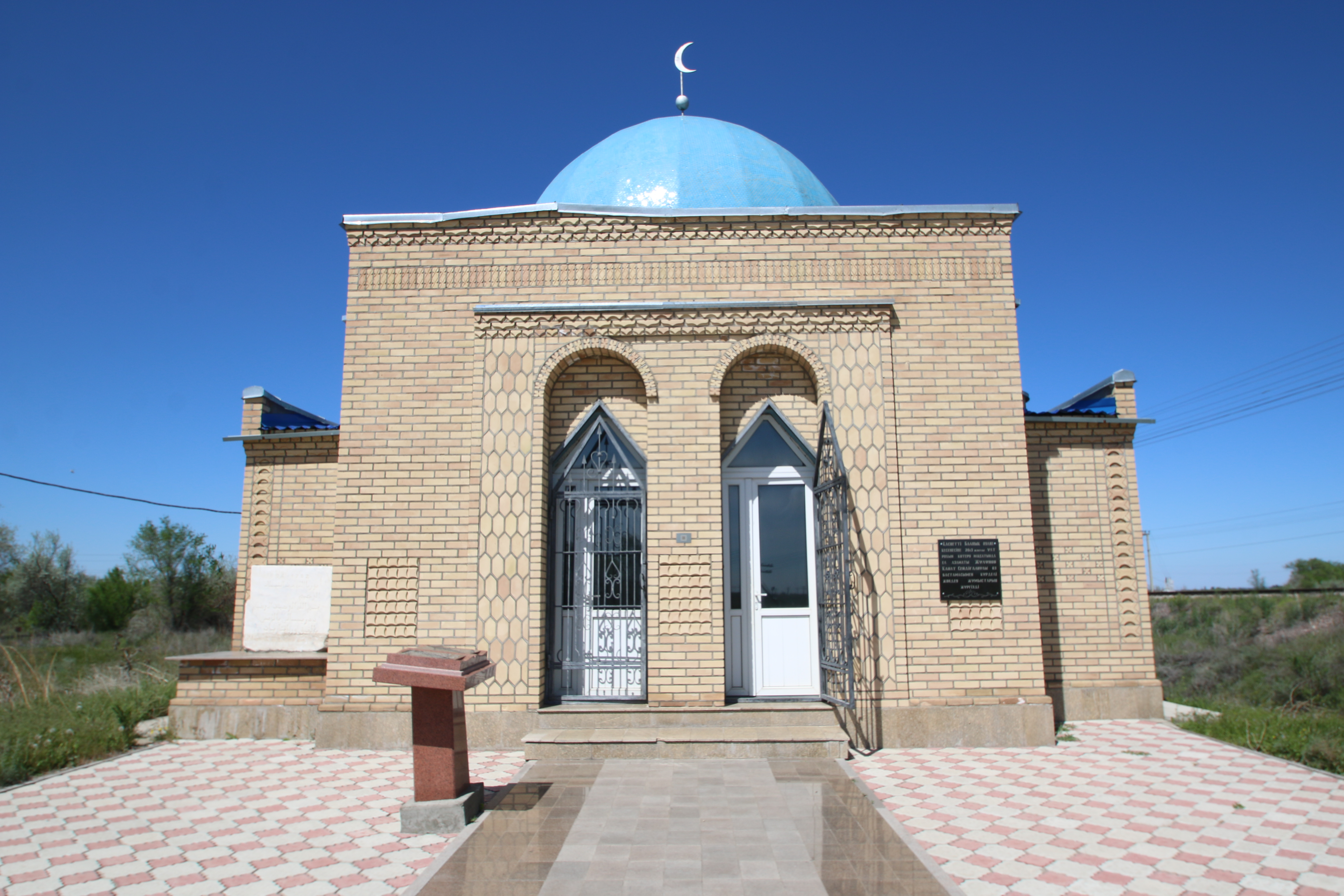 Balpyk Bi Mauseleum